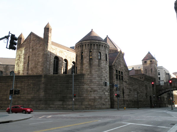 Picture of the former Allegheny County Jail, which is connected to the Allegheny County Courthouse by the Bridge of Sighs and is located at Ross Street and Fifth Avenue in Pittsburgh, Pennsylvania, on March 20, 2010. The courthouse and jail were designed by Henry Hobson Richardson. In 1884, the construction of the buildings was begun by the Norcross Brothers, Richardson's construction firm of choice. The jail portion of the complex was completed in 1886, the year of Richardson's death, and the entire courthouse was finished in 1886 by Shepley, Rutan and Coolidge, Richardson's successor firm. Architectural style: Richardsonian Romanesque. Additions to the jail were added by Frederick J. Osterling from 1903 to 1905. The courthouse and the jail are listed together as a National Historic Landmark, and on the National Register of Historic Places, but the courthouse and jail are listed separately on the List of Pittsburgh Landmarks recognized by the Pittsburgh History and Landmarks Foundation (PHLF). The former jail now houses the Allegheny County Court of Common Pleas Family Division.